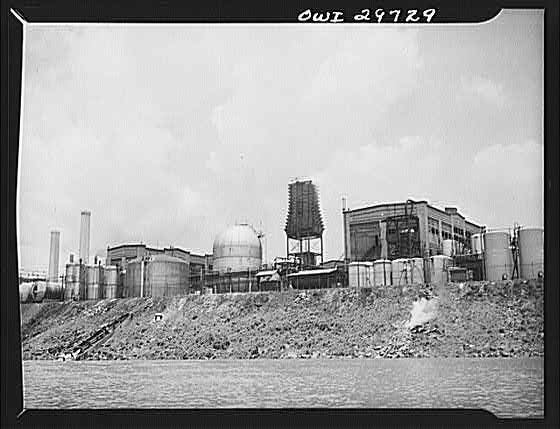 A chemical plant along the Kanawha River in Institute, West Virginia, USA, photographed in 1943.